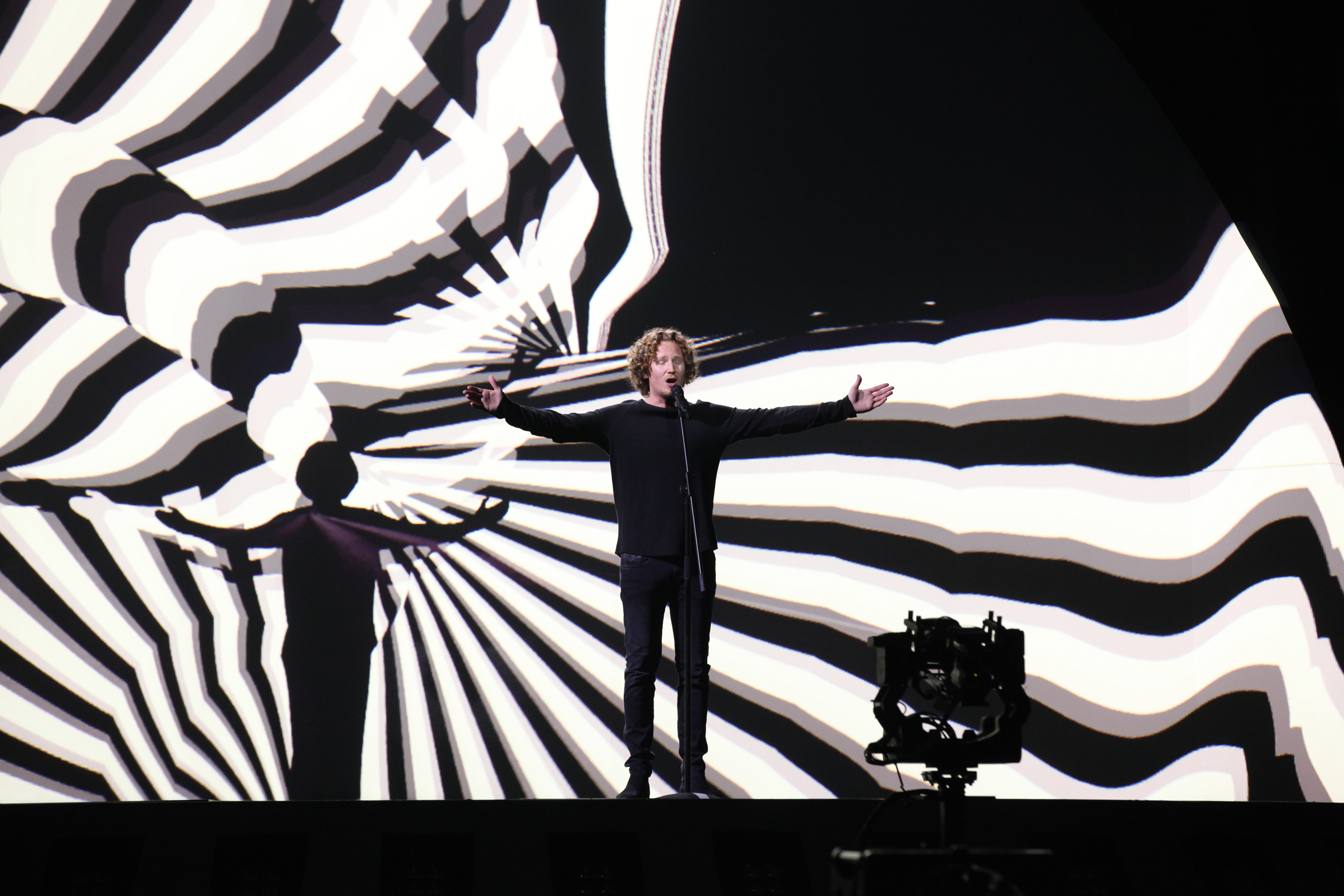 Michael Schulte representing Germany with the song "You Let Me Walk Alone" during a rehearsal before the second semi final of the Eurovision Song Contest 2018 in Lisbon.